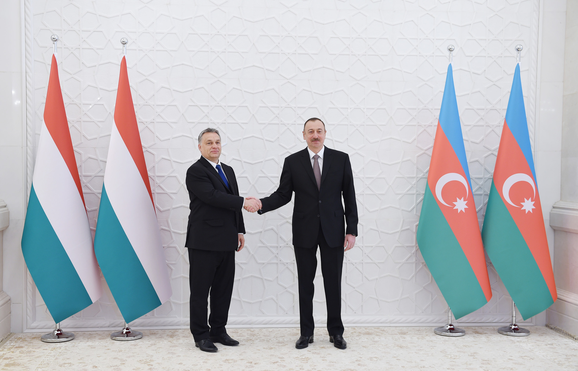 Ilham Aliyev and Hungarian Prime Minister Viкtor Orban held a one-on-one meeting